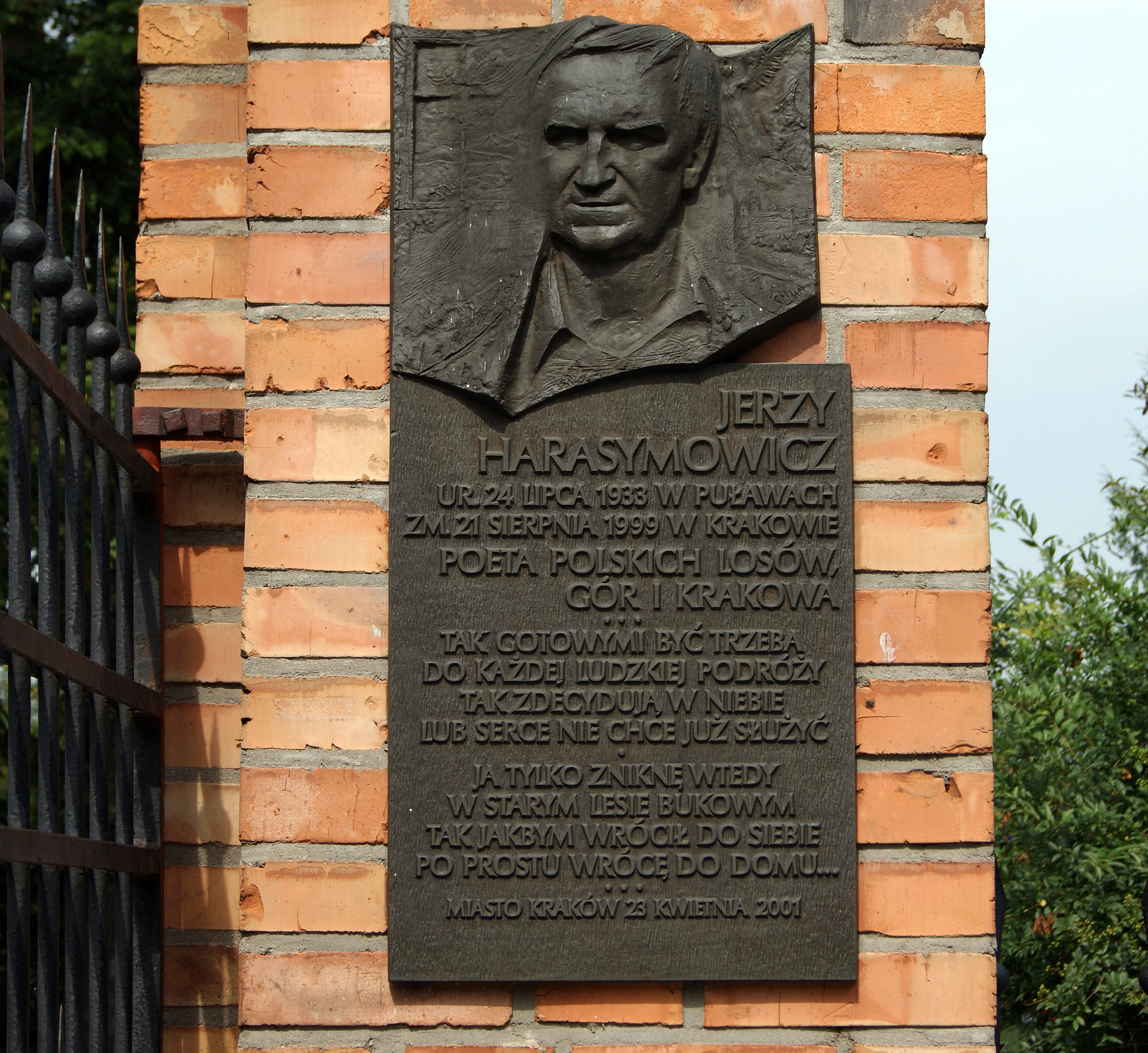 Jerzy Harasymowicz (polish poet)-Commemorative plaque, Salwator Cemetery, Waszyngton Av, Krakow, Poland